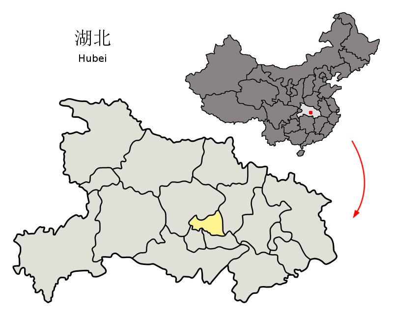 Location of Tianmen City jurisdiction (yellow) within Hubei Province of China Map drawn in december 2007 using various sources, mainly : Hubei Province administrative regions GIS data: 1:1M, County level, 1990 Hubei Counties map from